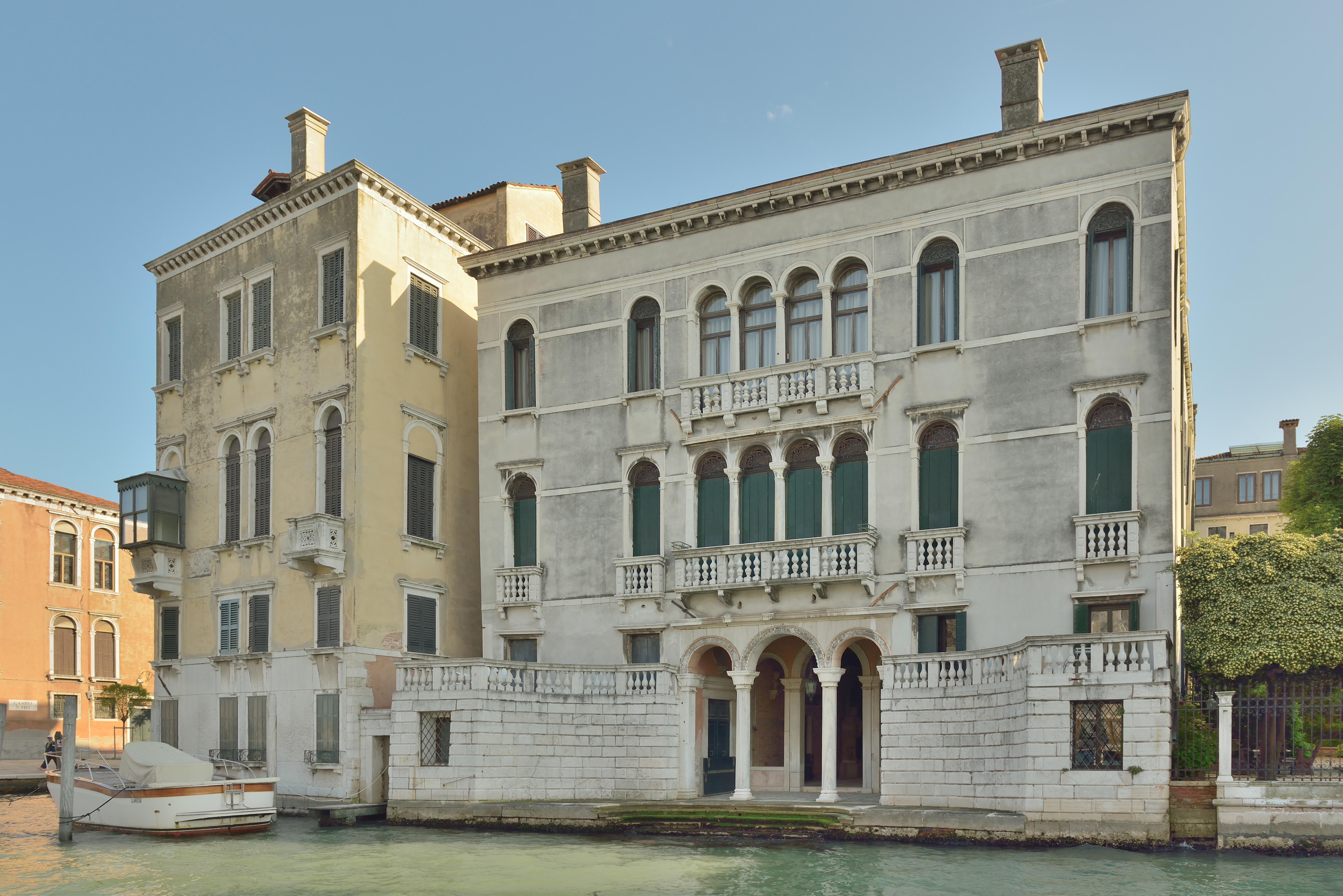 Palace Palazzo Balbi Valier Venice. Facade on Grand Canal.